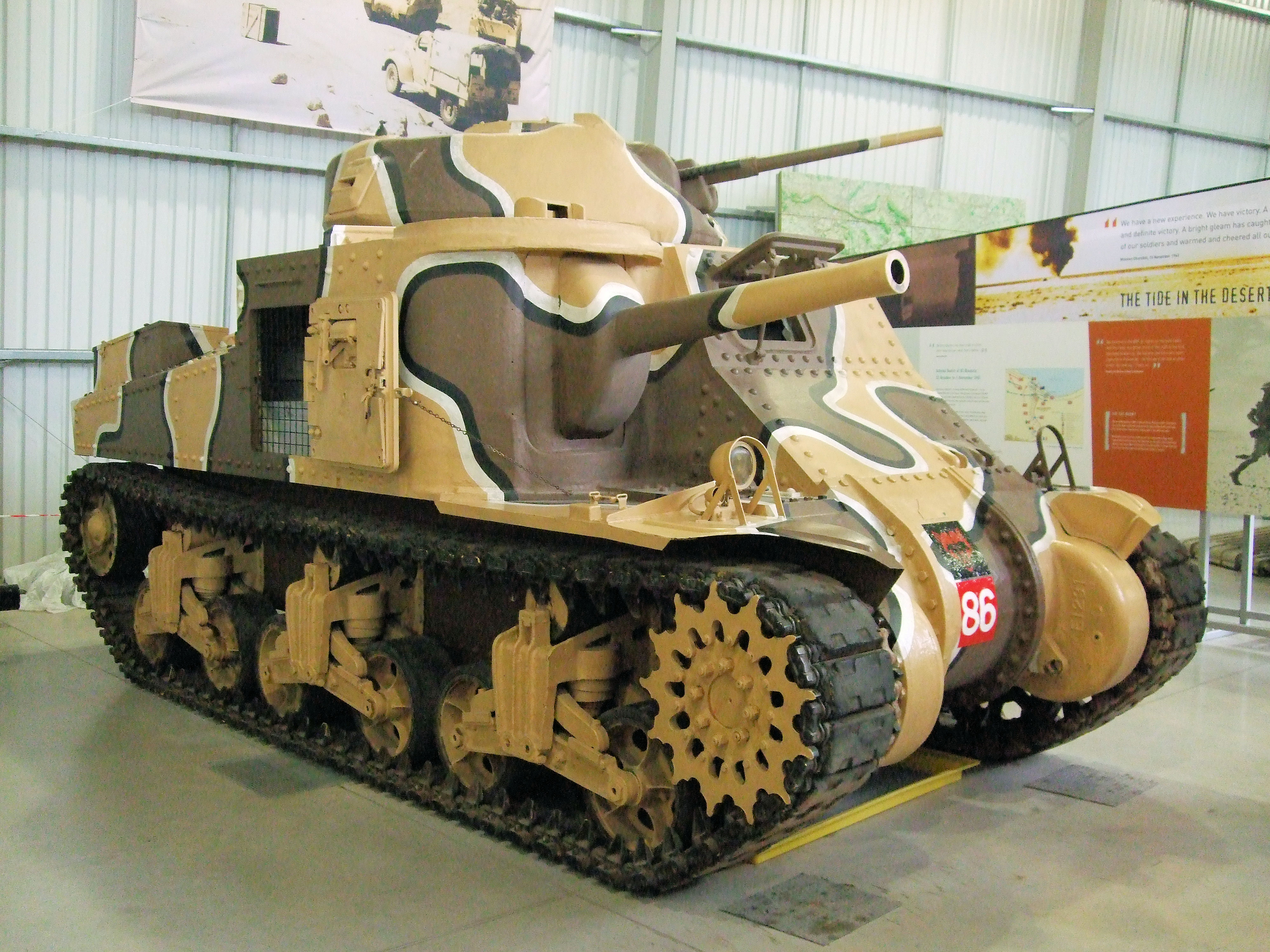 The Medium Tank M3 was an American tank used during World War II. In Britain the tank was called "General Lee", named after Confederate General Robert E. Lee, and the modified version built with a new turret was called the "General Grant", named after U.S. General Ulysses S. Grant.